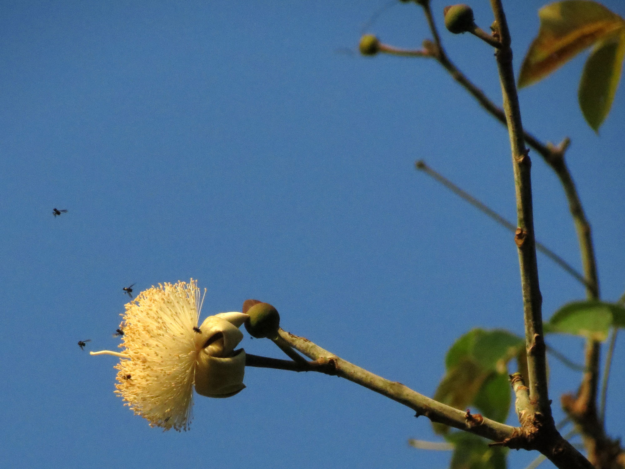 Pseudobombax septenatum. Barro Colorado Island, Panama. 19 January 2012